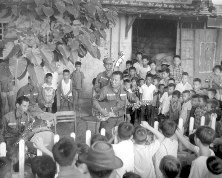 Entertainers of the Philippine Civic Action Group Play to Vietnamese Villagers.